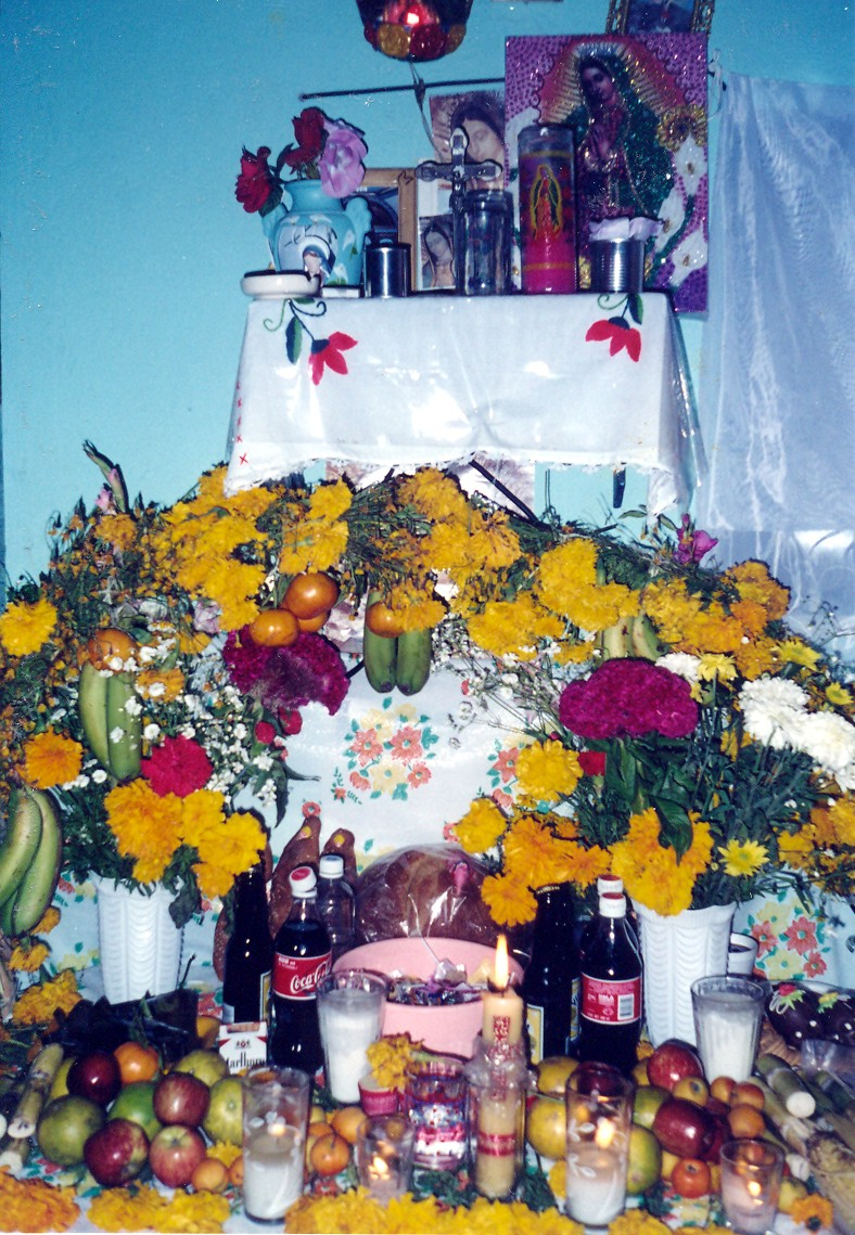 Ayutla Ofrenda